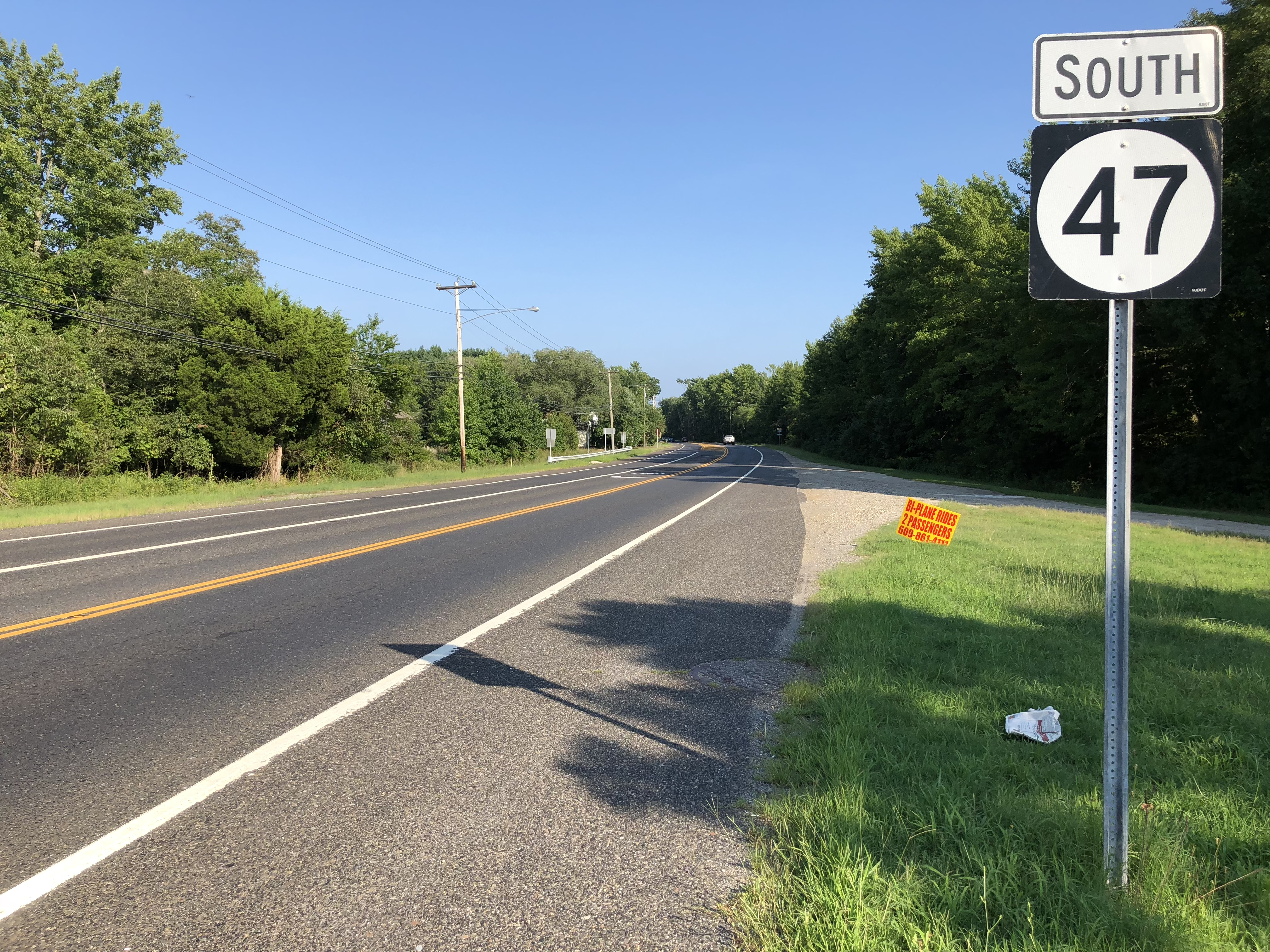 View south along New Jersey State Route 47 (Delsea Drive) just south of New Jersey State Route 347 (East Creek Mill Road) in Dennis Township, Cape May County, New Jersey